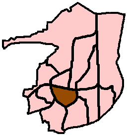 PNG diagram of the Crawley Borough area (in West Sussex, England), showing the 13 residential neighbourhoods and highlighting Southgate in brown. (Each neighbourhood was allocated a colour when it was built, which together with its name is used on street name signs. Brown is Southgate's official colour.)